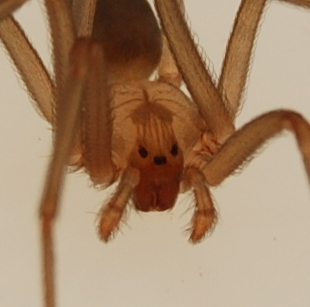 Adult male brown recluse spider (Loxosceles reclusa). Enlarged dorsal view. Photo cropped to highlight the head and eyes